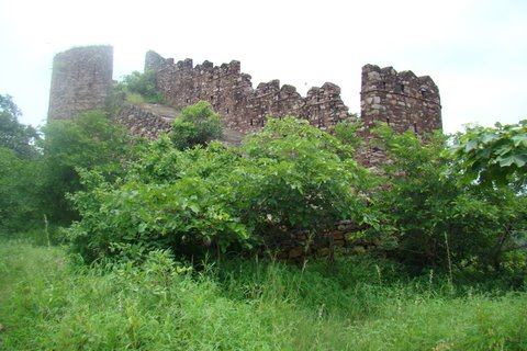 Fatehburj at Hinglaj Fort in Mandsaur district in Madhya Pradesh, India